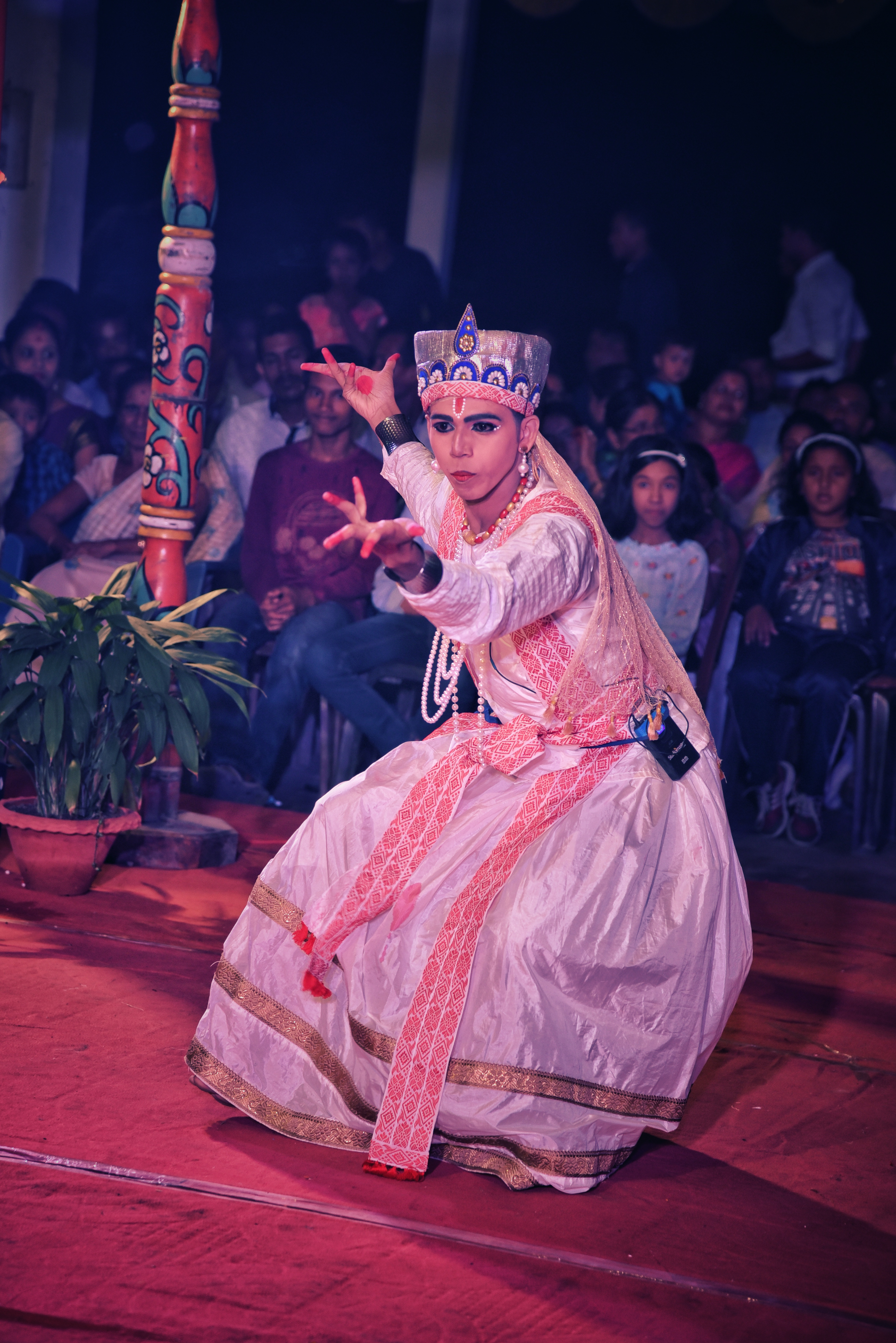 This dance form is called shutradhari nritya. Assamese drama.